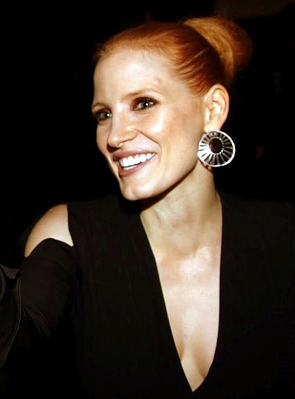 Jessica Chastain at the Toronto International Film Festival 2011.